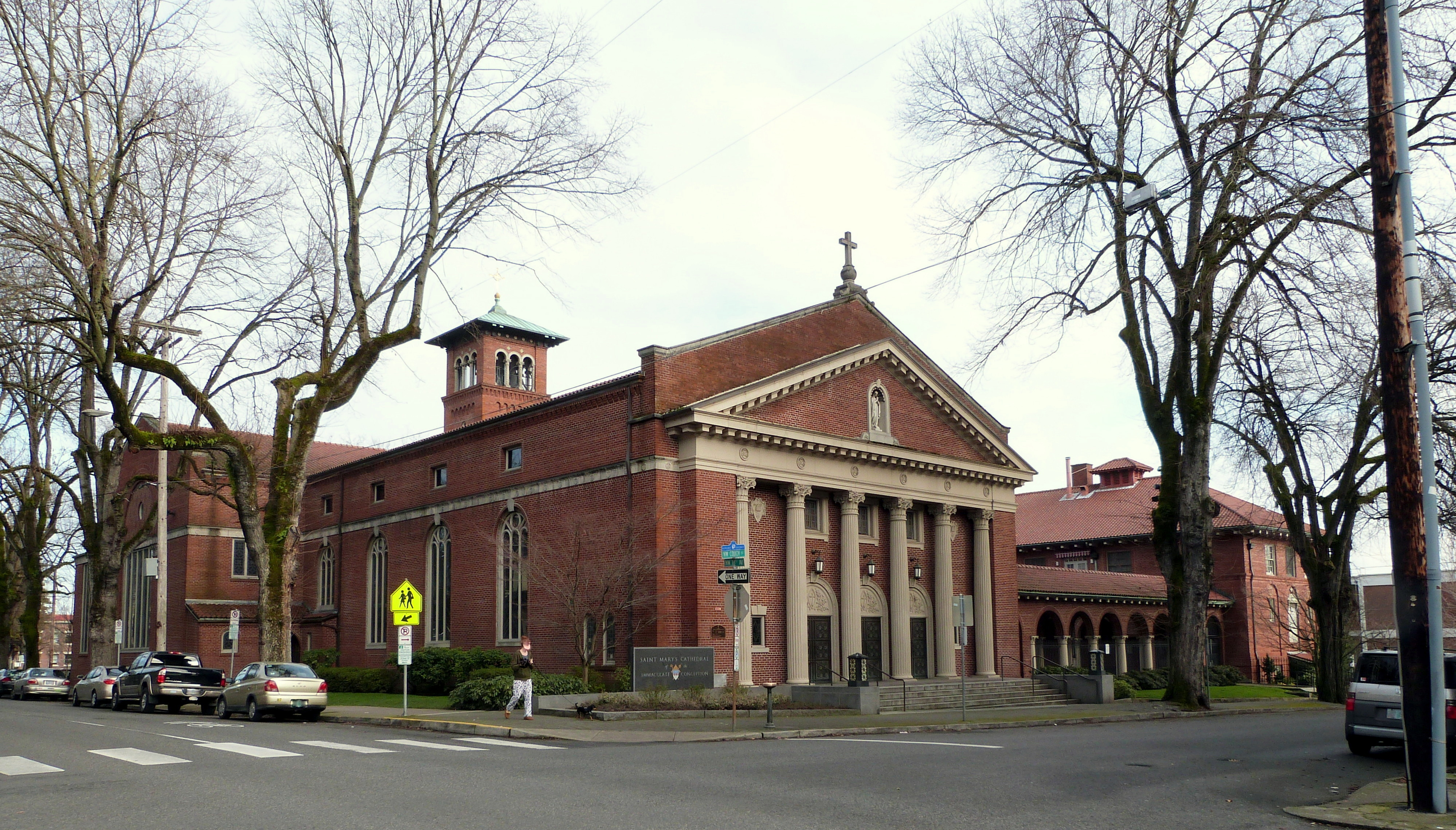 St. Mary's Cathedral of the Immaculate Conception (built 1925), located at 1715 Northwest Couch Street in Portland, Oregon, United States, is the seat of the Roman Catholic Archdiocese of Portland in Oregon. It is identified as a contributing resource in the Alphabet Historic District, listed on the US National Register of Historic Places.